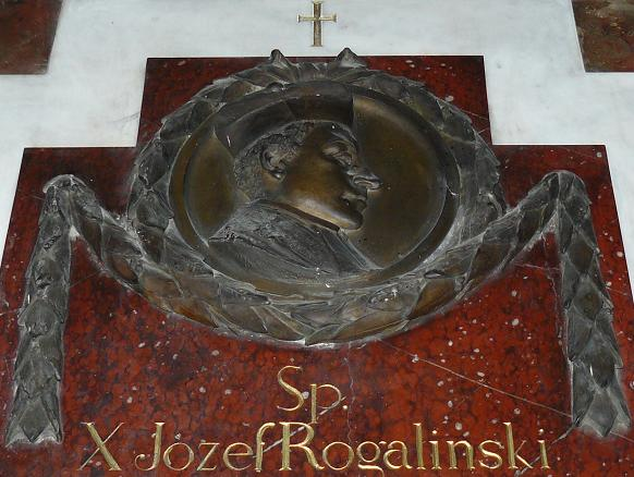 Poznan. Fara Church. Jozef Rogalinski Tomb.